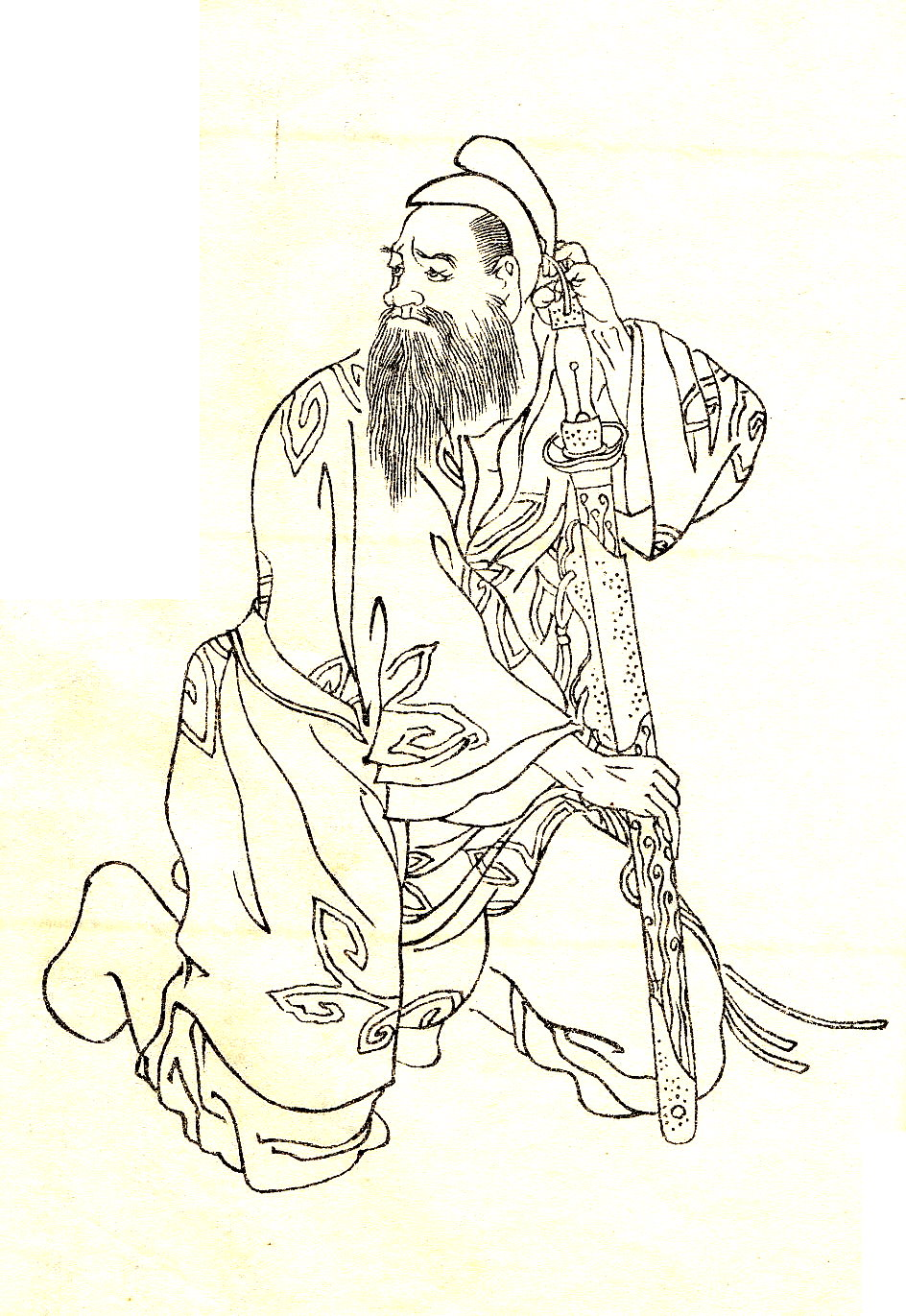 Mononobe no Arakabi (物部麁鹿火) was a government minister during the Yamato period of ancient Japanese history. This picture was drawn by Kikuchi Yosai（菊池容斎） who was a painter in Japan.